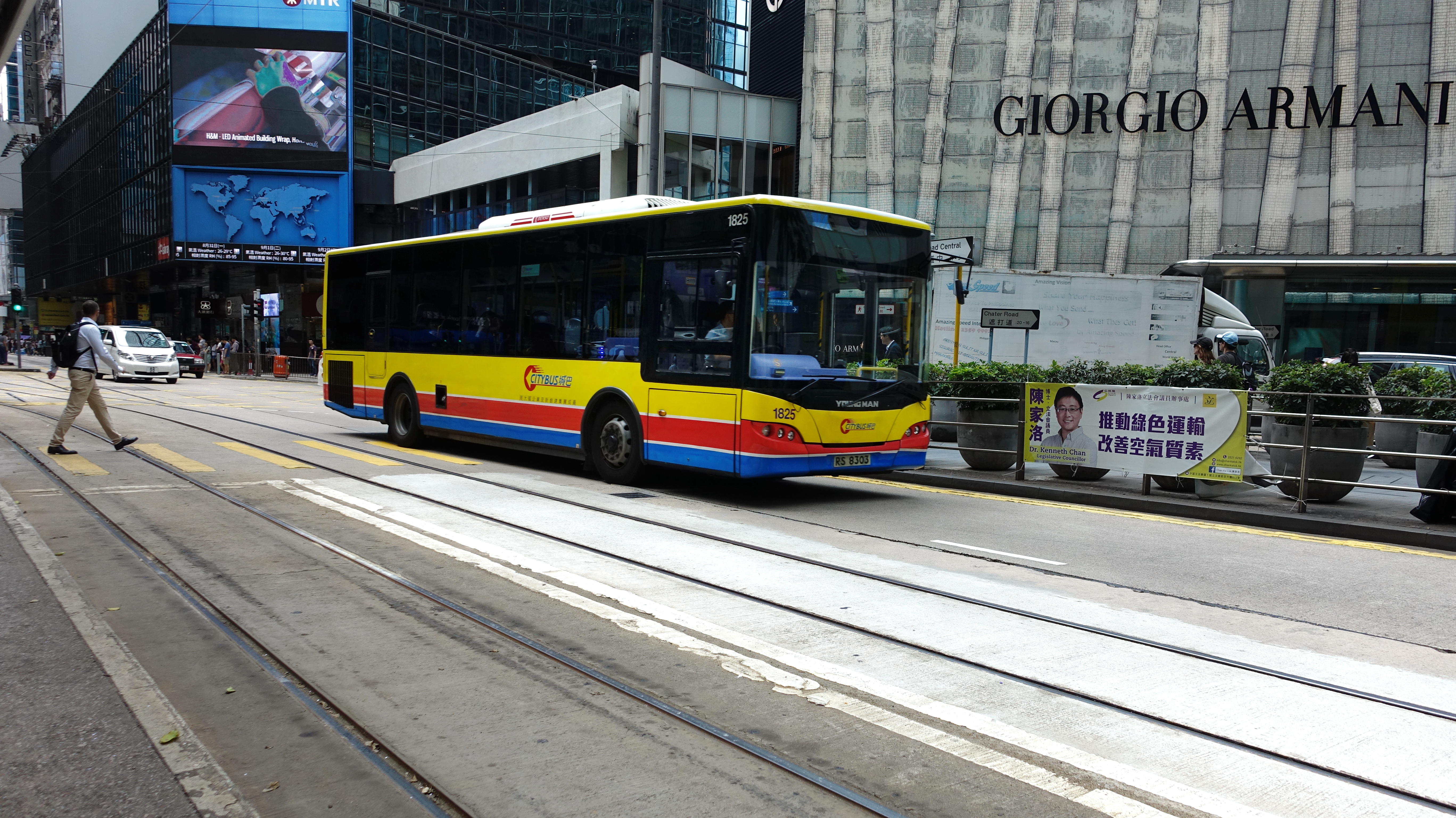 A Citybus Route 12A bus at Des Voeux Road Central, Central, Hong Kong.(Please note that the file was incorrectly named as Route 40M. It should be Route 12A.)